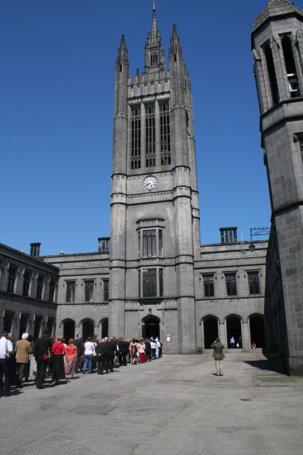 Marischal College Inside the courtyard. Friends, parents and other relatives queuing to watch the Aberdeen University graduation ceremony.